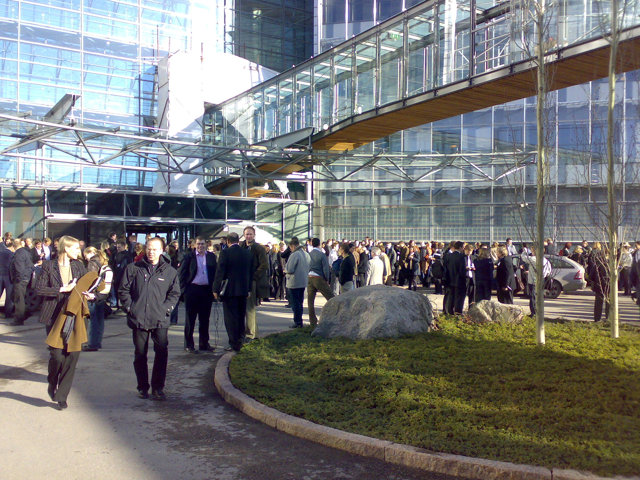 Walkout from Nokia HQ March 14, 2007